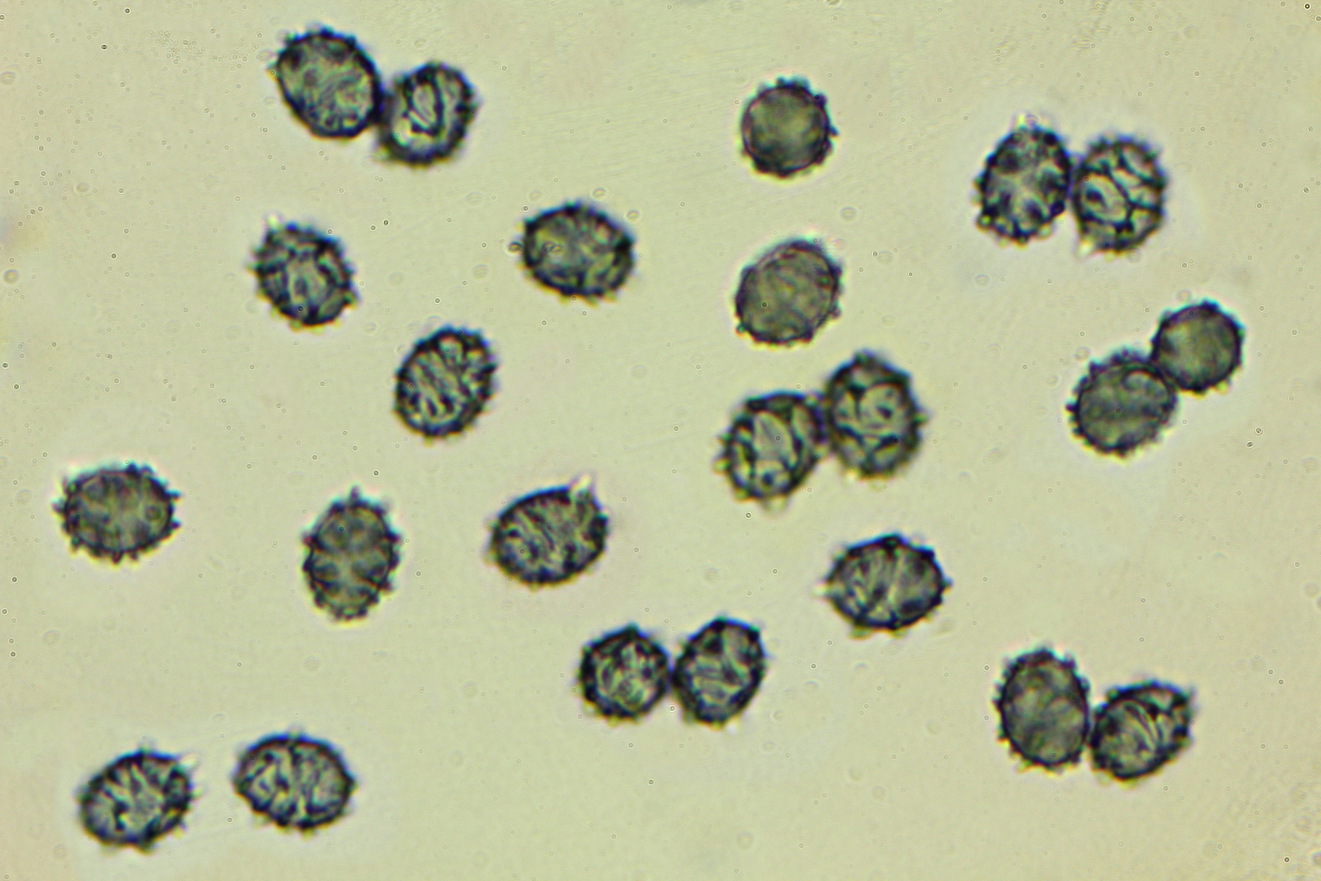 Template:Mushroomobserver